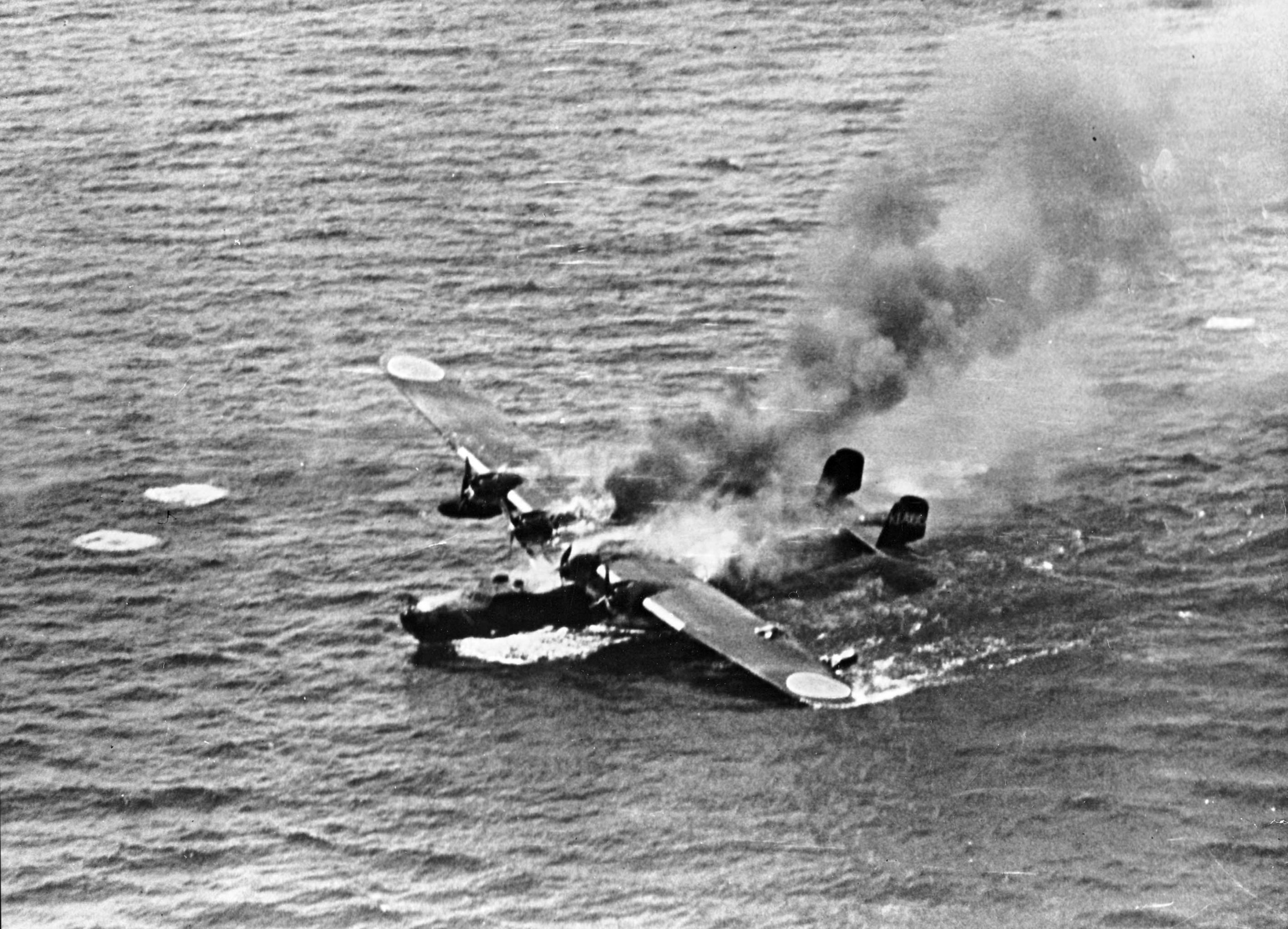 A Japanese Kawanishi H6K Mavis flying boat burning on the water at an unidentified location.